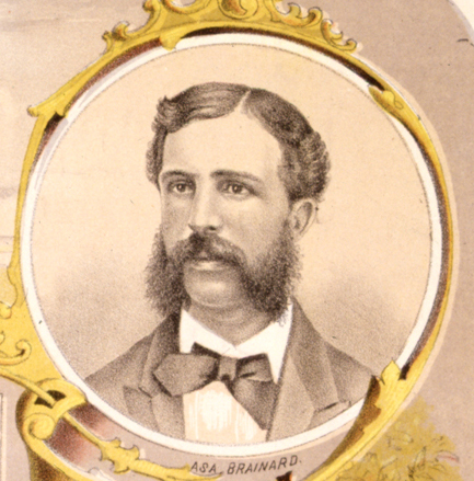 Major League Baseball player Asa Brainard of the Cincinnati Red Stockings.